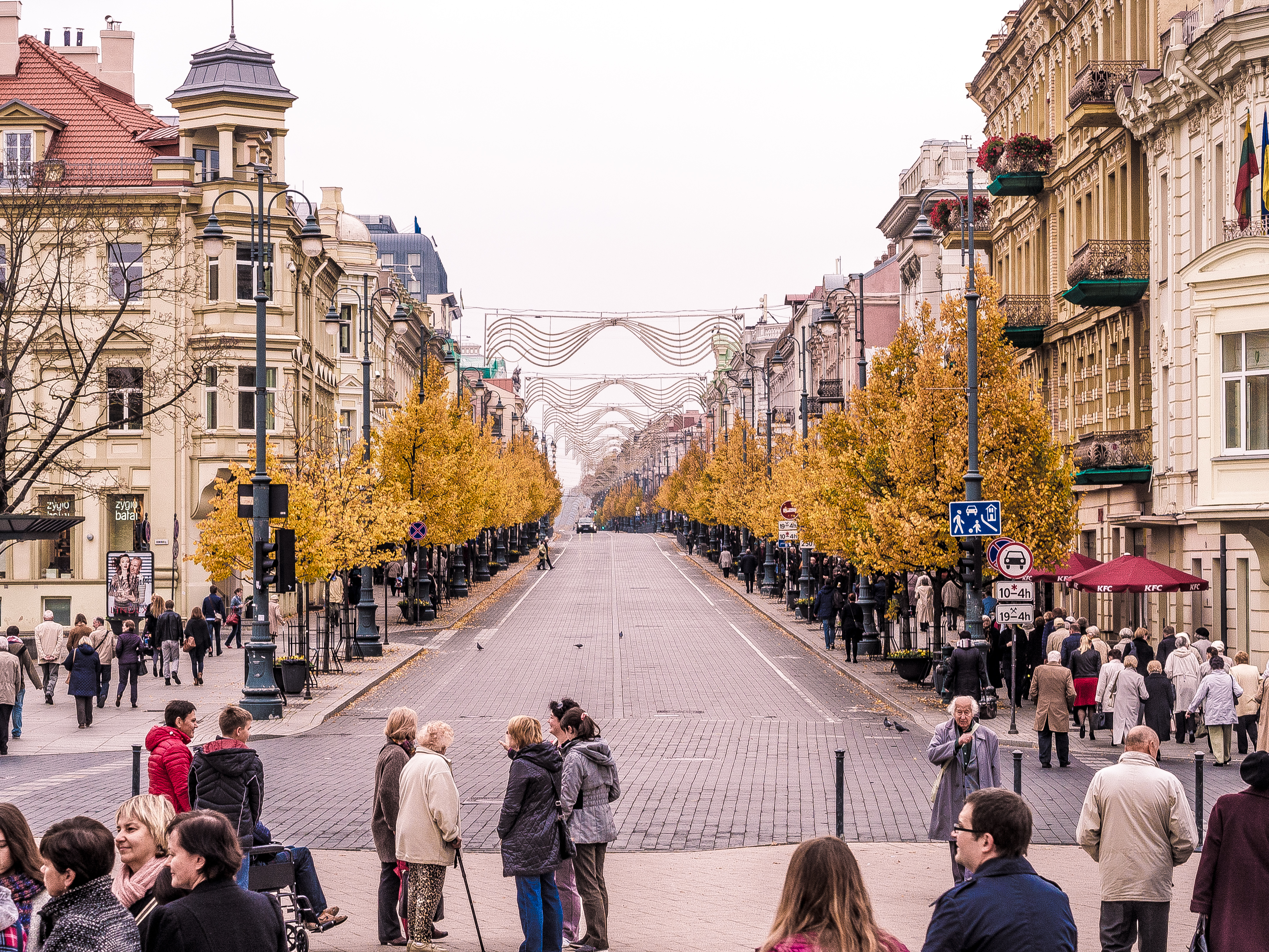 Gediminas Avenue during the autumn season in Vilnius, Lithuania.